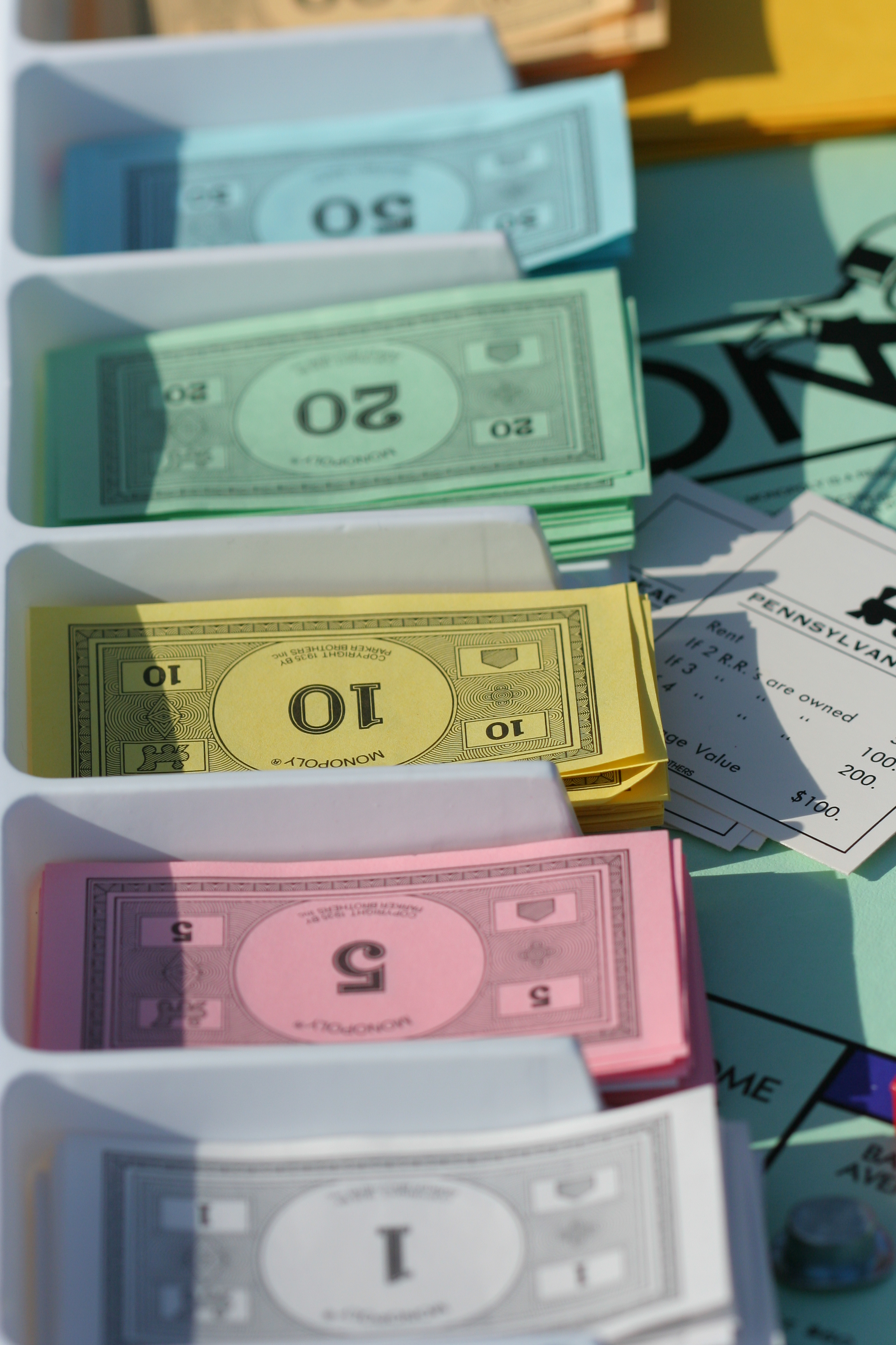 Stock photos illustrating ideas of strategy, conflict, and reward.